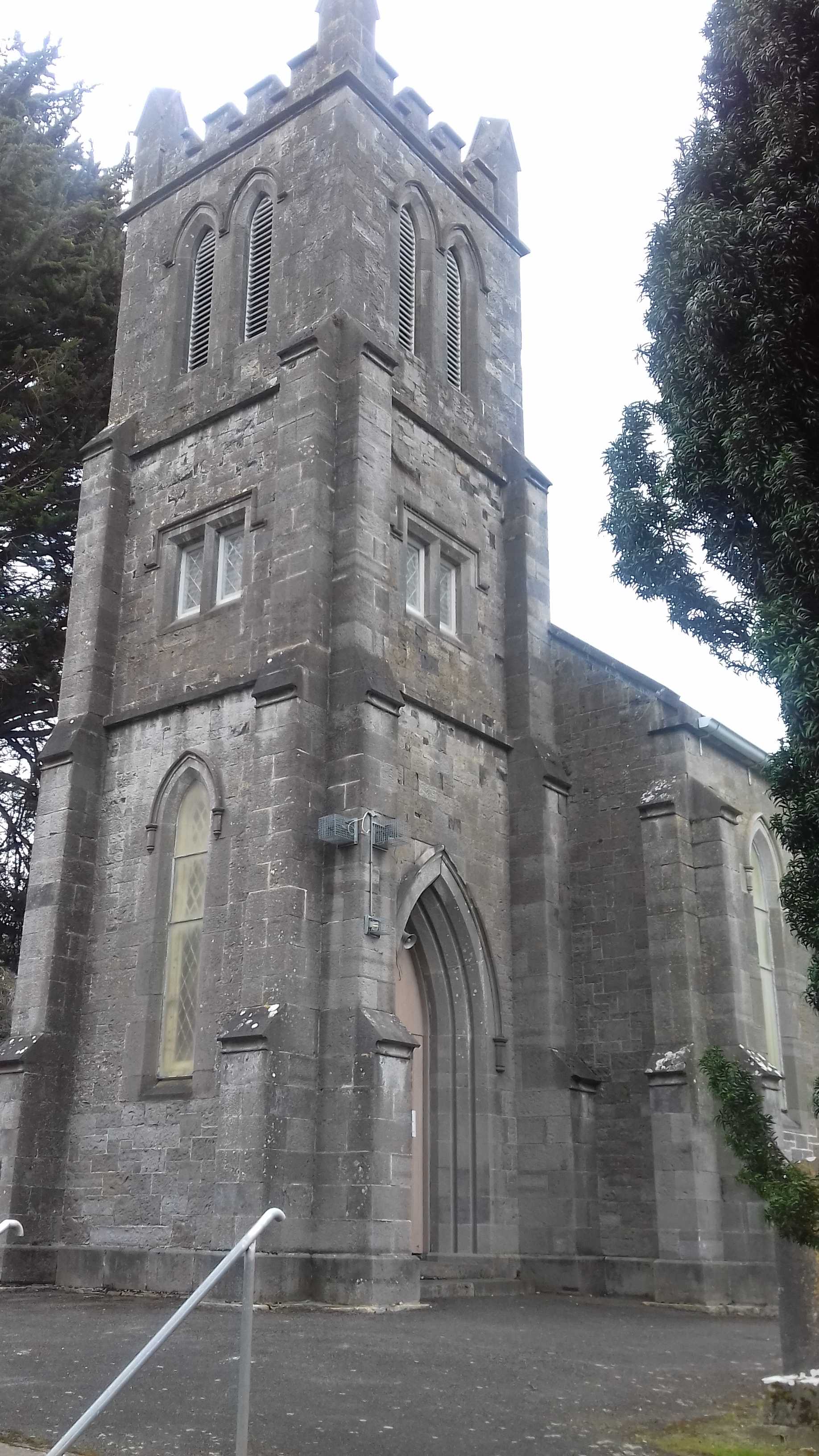 Entrance door and spire / tower at the western facade of the church of St Mary in the Clonsilla parish of the Church of Ireland. Yew tree in the foreground. Limestone construction.